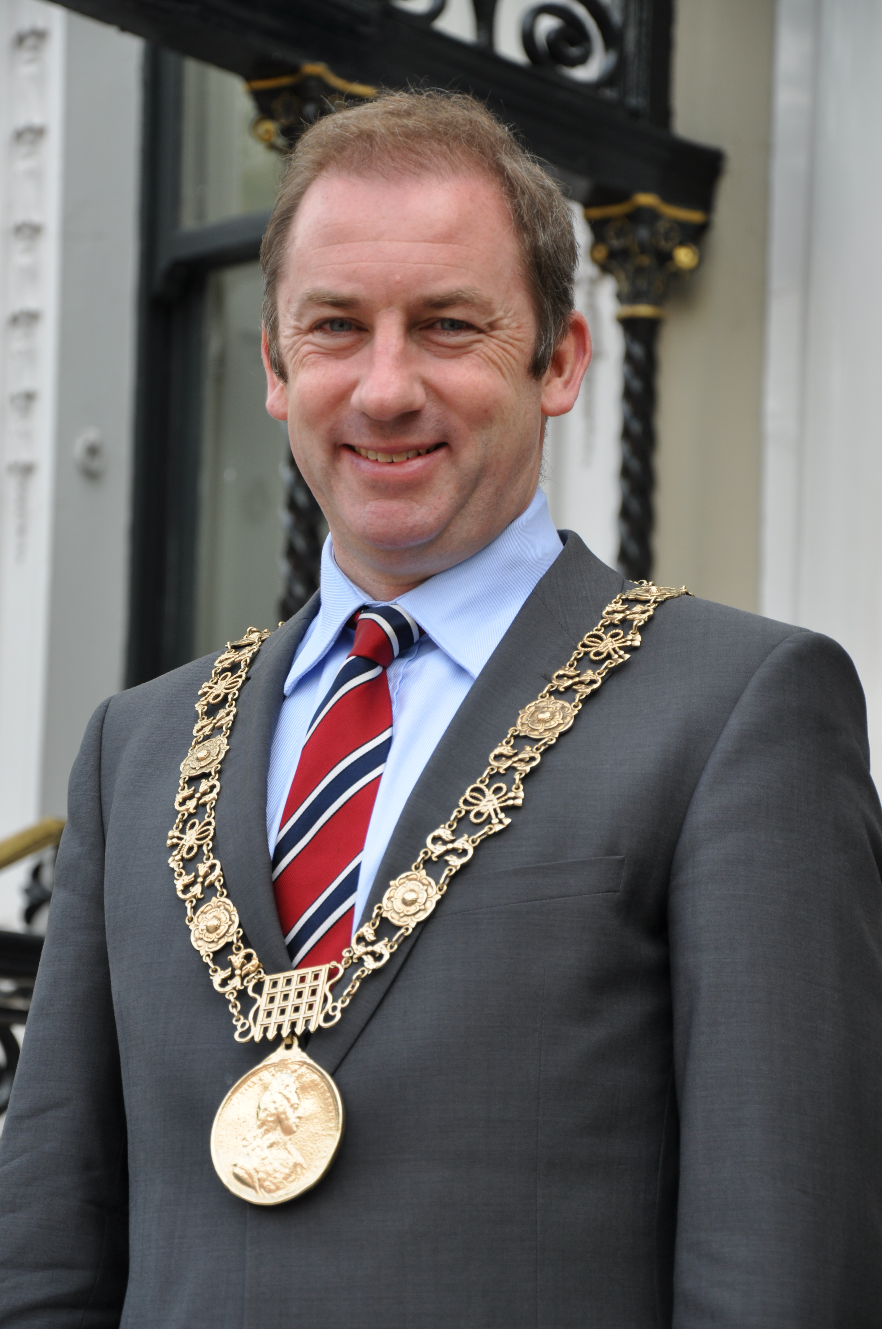 Dublin Lord Mayor Oisin Quinn